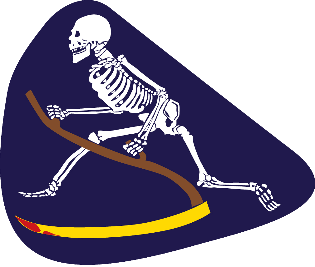 13th Aero Squadron - Emblem.